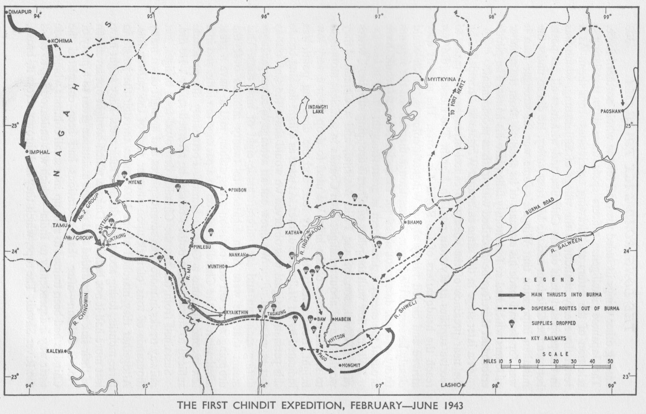 THE FIRST CHINDIT EXPEDITION, FEBRUARY-JUNE 1943